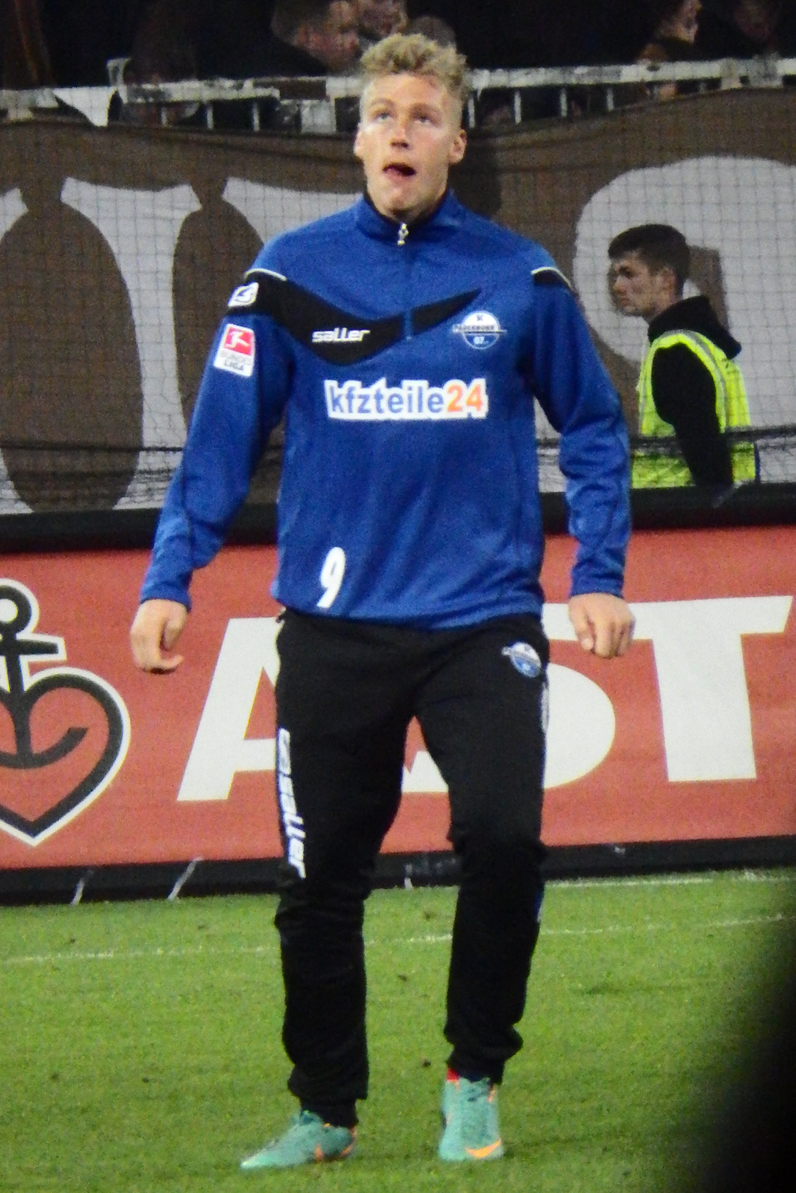 Rick ten Voorde as Player of SC Paderborn